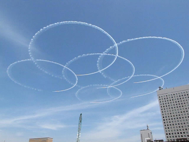 Blue Impulse subjects exhibited flight "Sakura" (at Yokohama Minato Mirai District)